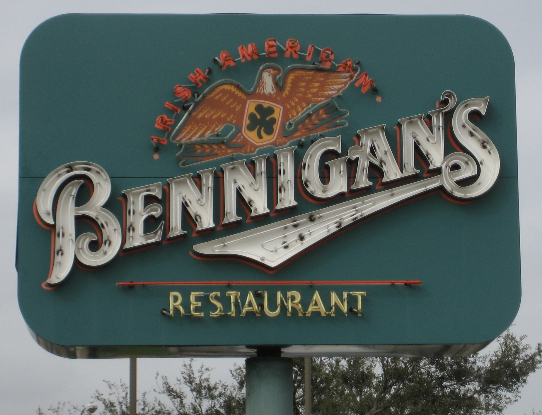 "Bennigan's" Restaurant sign, Algiers, Louisiana. Photo by Infrogmation. I release all rights to this photo. If any relevant copyrights apply to the artwork shown on the sign, it is presumed fair use for illustrating the Bennigan's article.